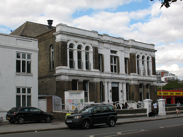 West Greenwich Community Centre. The building was originally Greenwich Town Hall, a function that is now carried out by the Woolwich Town Hall 331633 since the merger of the two boroughs many years ago.